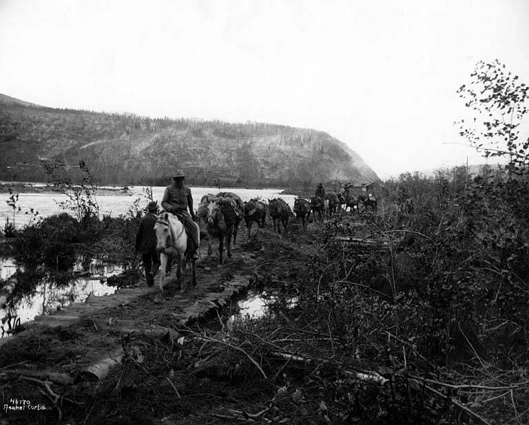 The packtrain was loaded with the results of the 1898-99 cleanup from his 16 Eldorado claim, amounting to about one ton .Klondike Gold Rush. Subjects (LCTGM): Pack animals--Yukon; Horses--Yukon; Yukon--Gold discoveries Subjects (LCSH): Lippy, T. S.